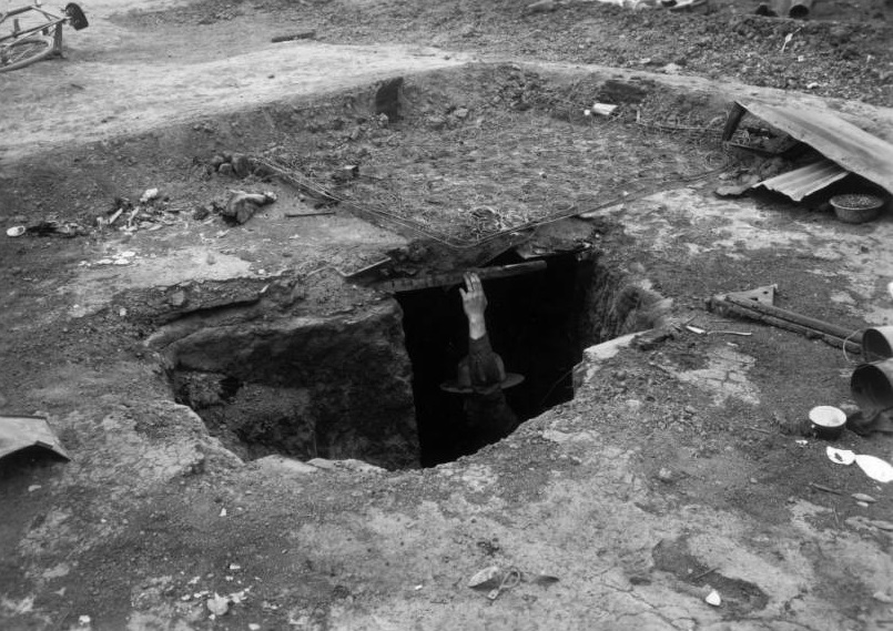 A man inspects an underground shelter at the UMW camp for coal miners on strike against CF&I in Forbes, Las Animas County, Colorado, in which women and children died during a fire set by the Colorado National Guard.